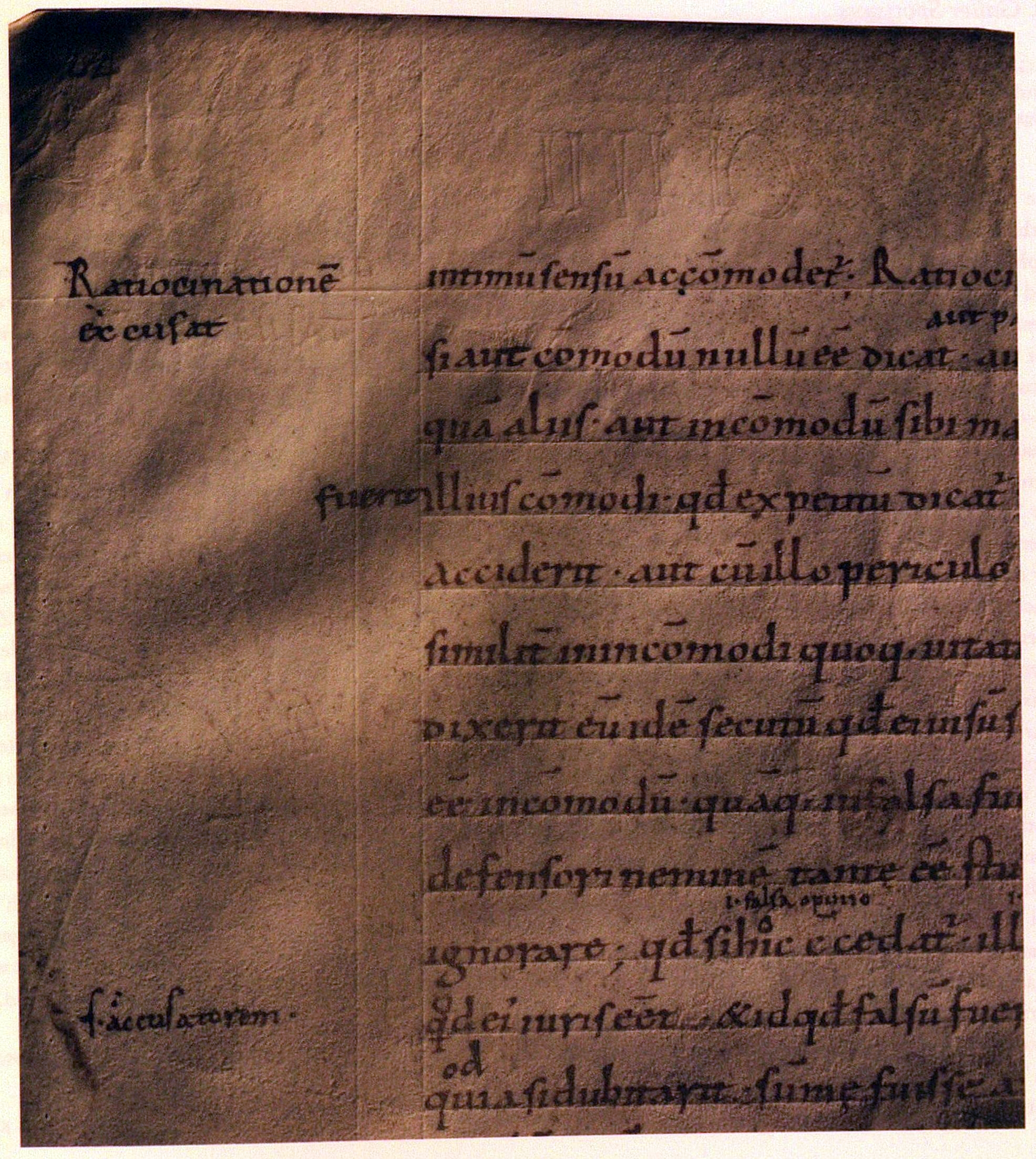 Marginal glosses in a manuscript of Cicero’s handbook “De Inventione”. St. Gallen, Stiftsbibliothek, Cod. Sang. 820, page 124.